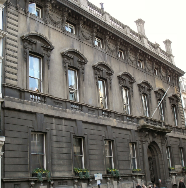 The Garrick Club, 15 Garrick Street, London WC2E 9AY Photo taken by lonpicman